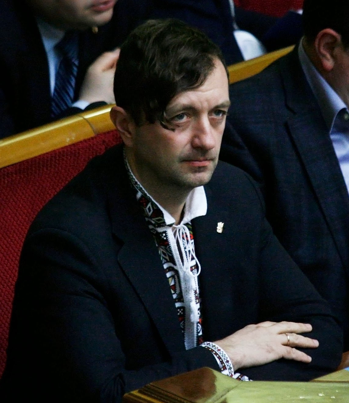 Eduard Leonov, Ukrainian politician, member of the Ukrainian Verkhovna Rada